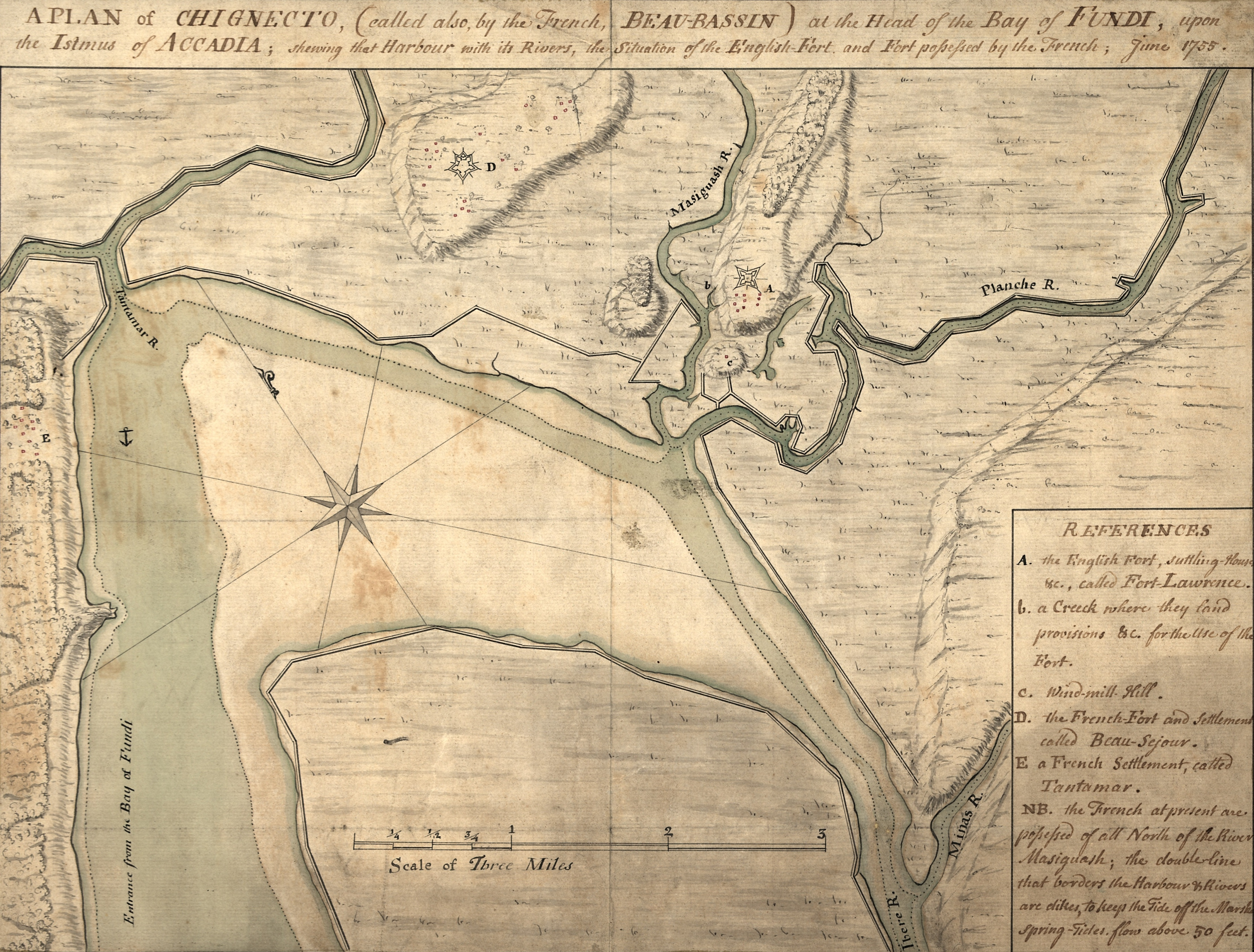 A map depicting the Beaubassin region of Nova Scotia in 1755. The area was then on the frontier between British Nova Scotia and French Acadia. The caption reads: A plan of Chignecto (called also by the French Beau-Bassin) at the head of the Bay of Fundi upon the Istmus of Accadia shewing that harbour with its rivers, the situation of the English fort and fort possessed by the French, June 1755. The image has been cropped from the original to remove a border.